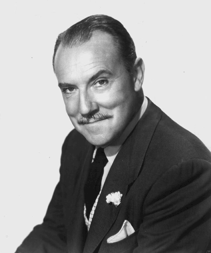 Photo of character actor Gale Gordon, noted for his television roles on Our Miss Brooks and the various Lucille Ball television comedies.